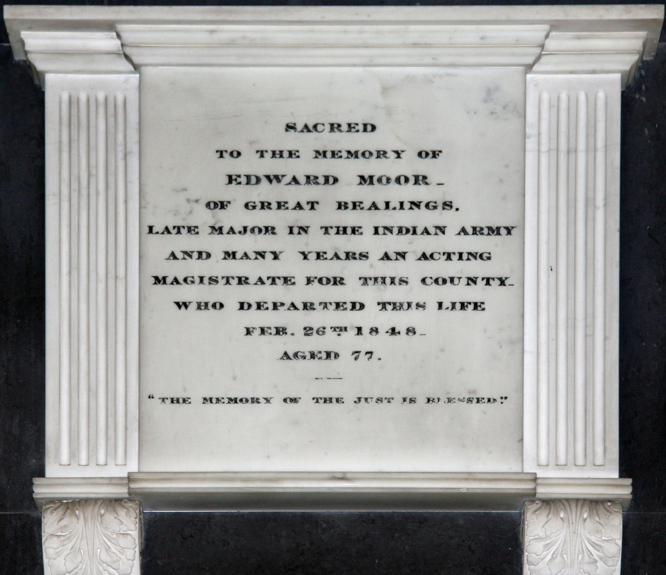 A photo of Edward Moor's memorial stone in Great Bealings church.